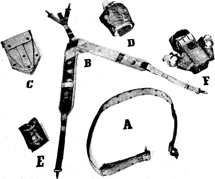 LINCLOE LCE circa 1970/71